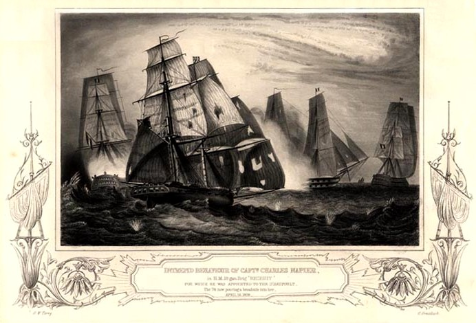 The combat of the HMS Recruit, under Lt. Charles Napier, against a much superior French force (b&w steel engraving by G. Greatbach of a G. W. Terry drawing